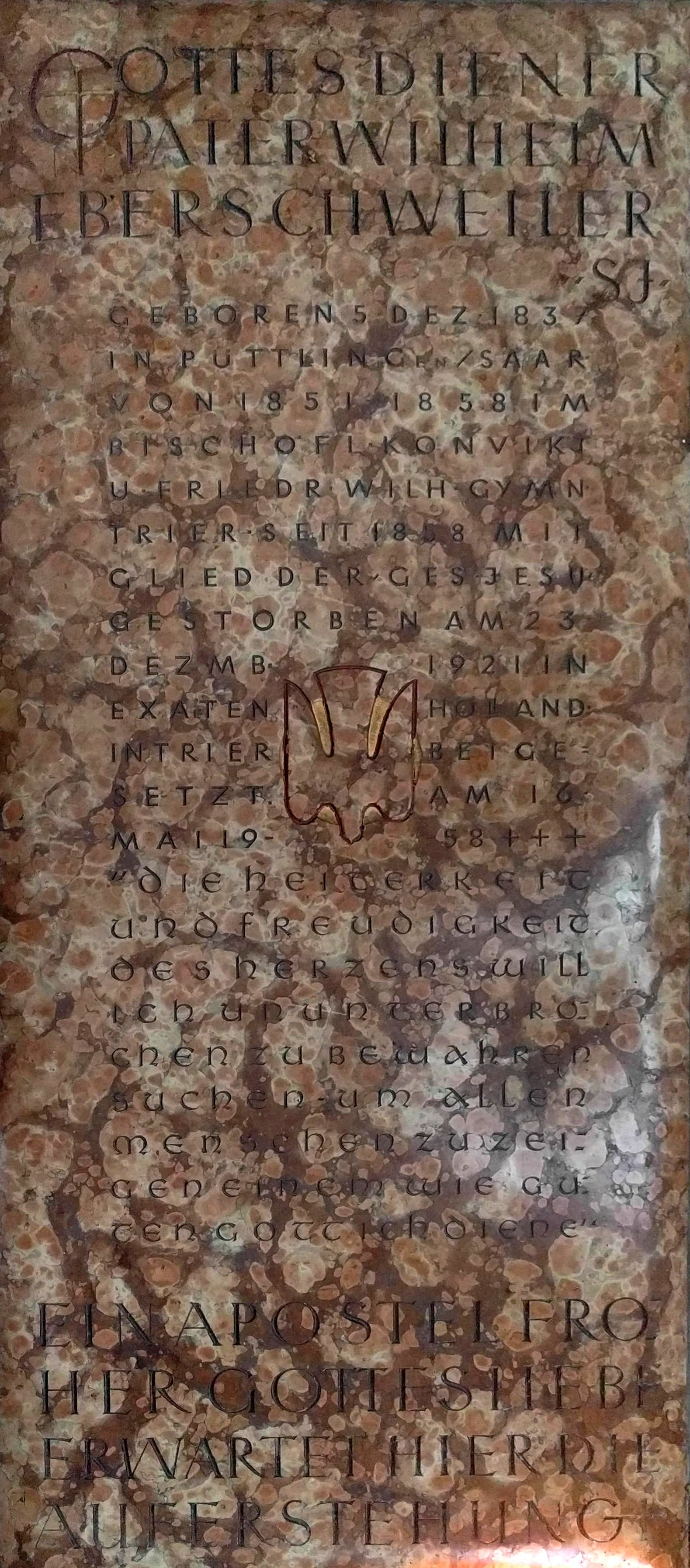 Gravestone of Wilhelm Eberschweiler in the Jesuit Church of Trier